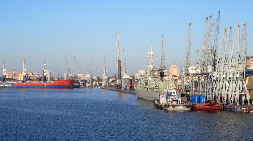 The Porto do Lobito is Angola's second largest.